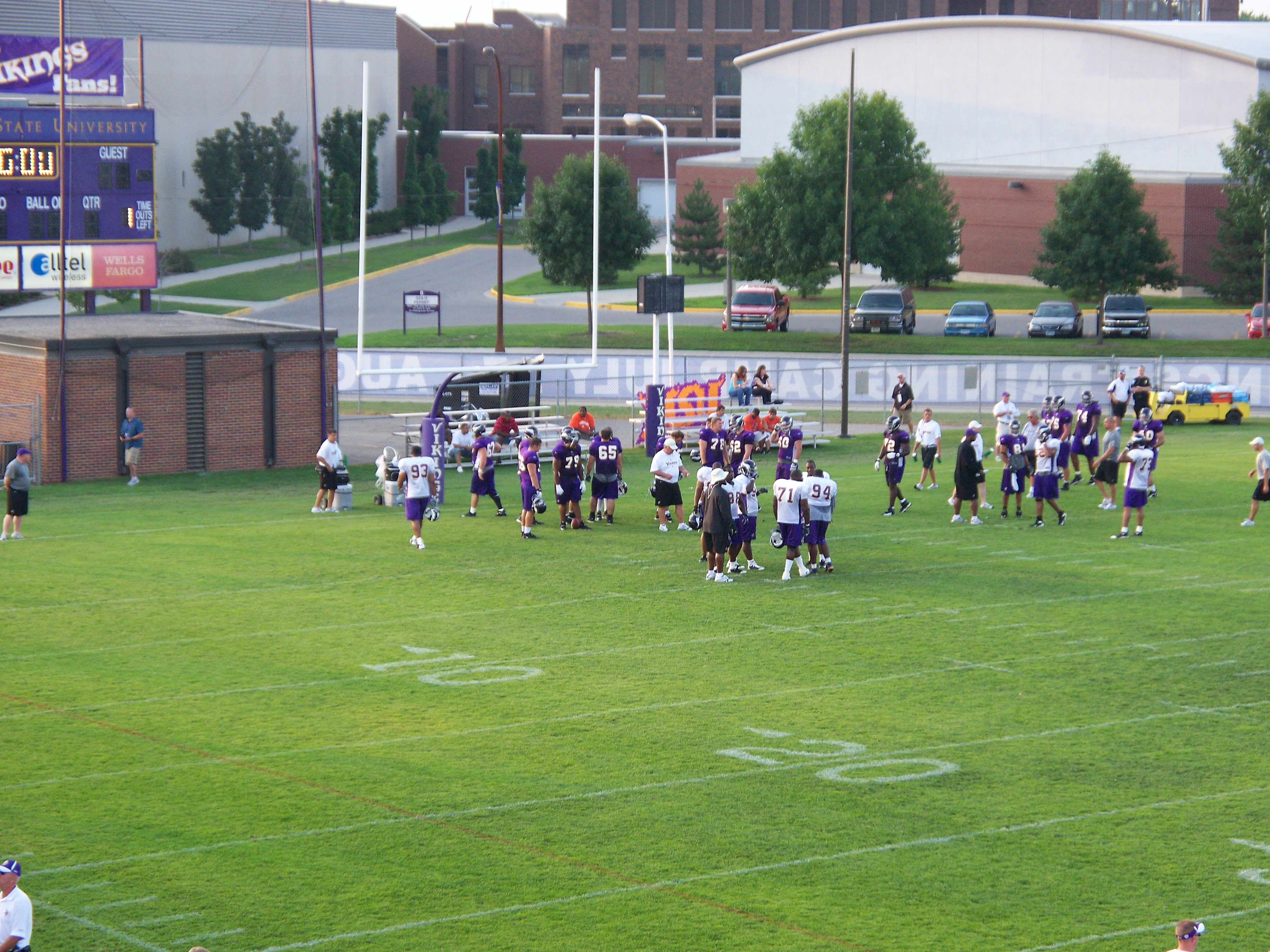 2008 Minnesota Vikings training camp conducted at Blakeslee Stadium on the campus of Minnesota State University, Mankato.